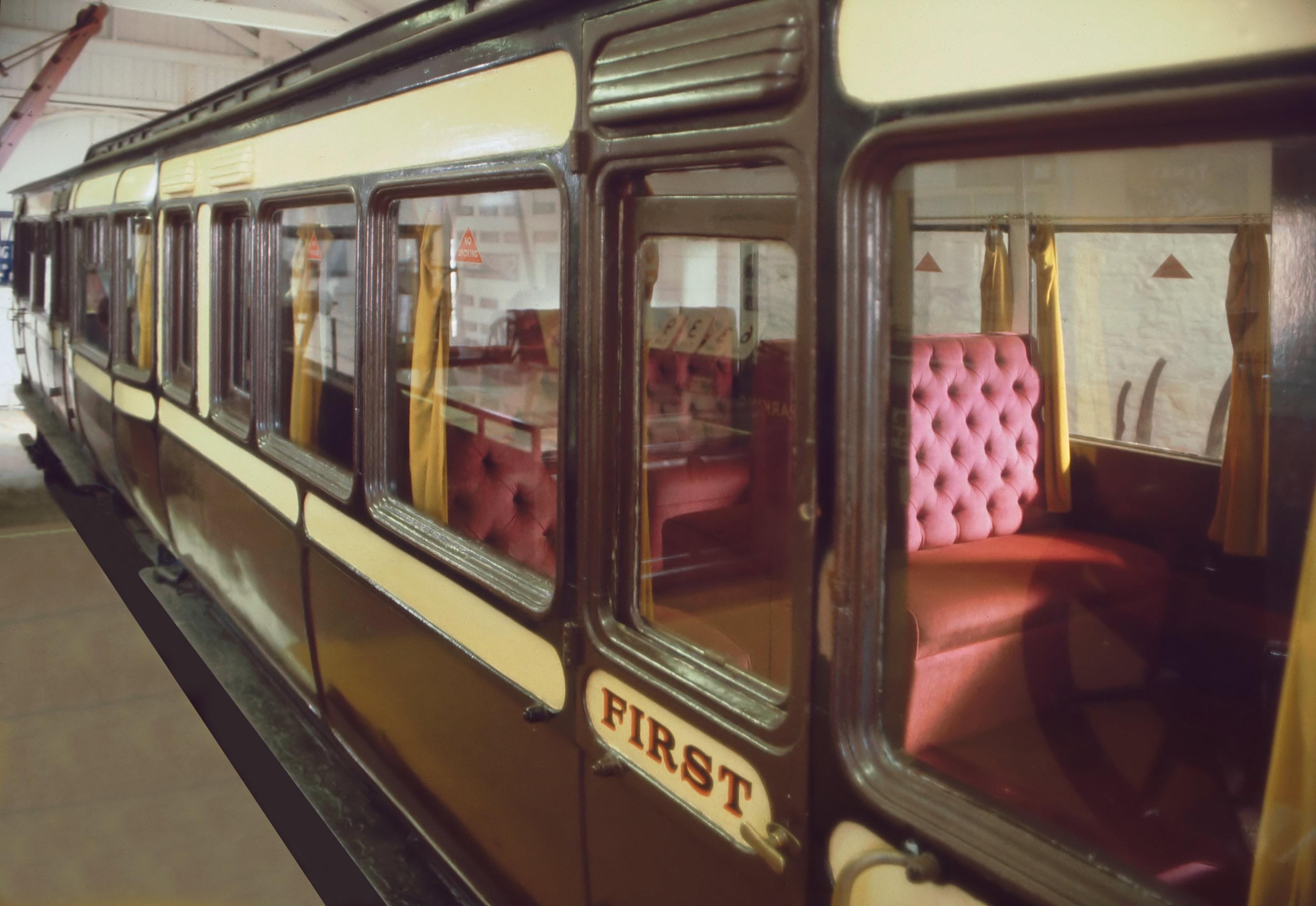 Historic Wagon at Buckfastleigh Railway Station